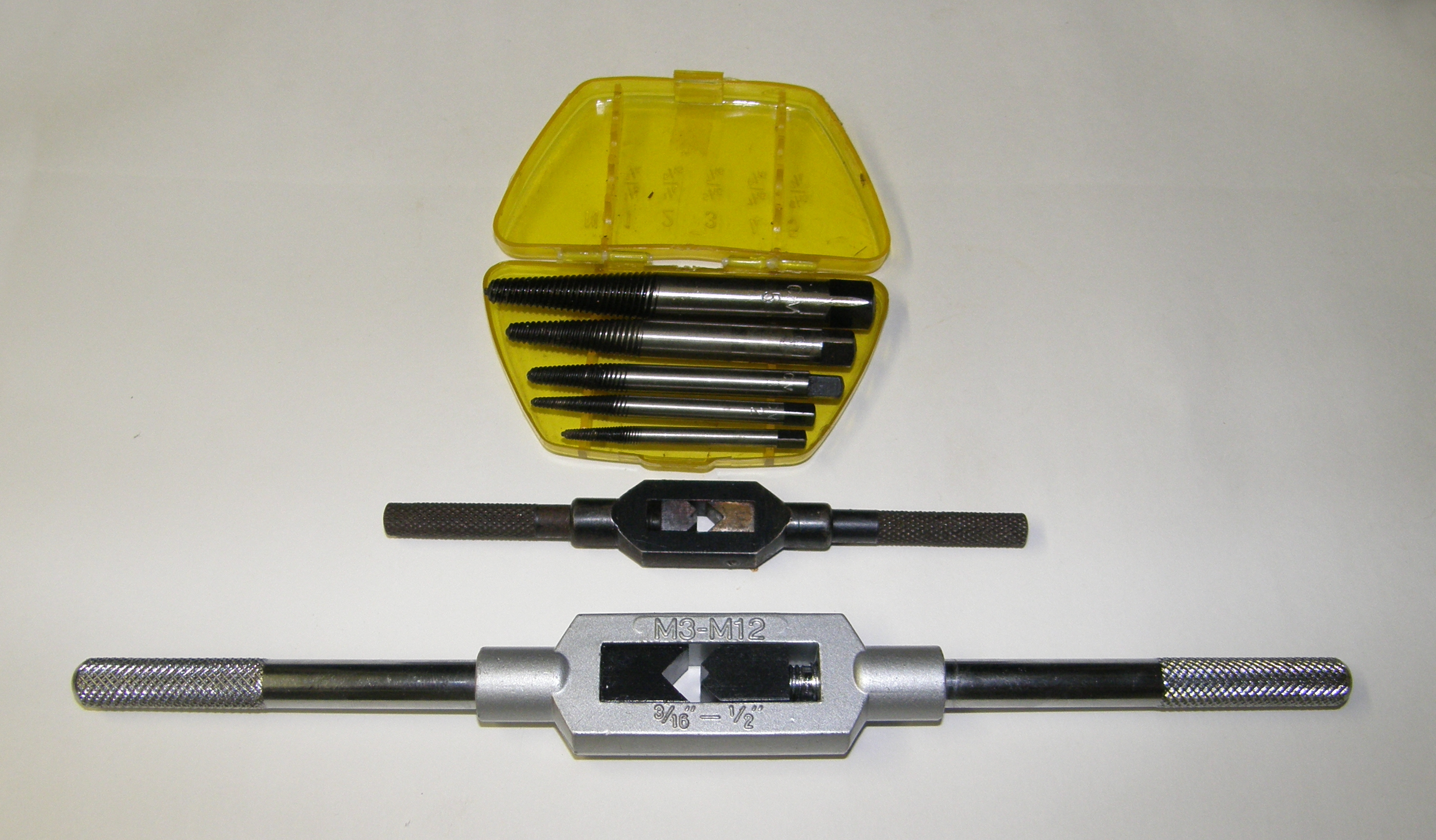 tool for broken screw